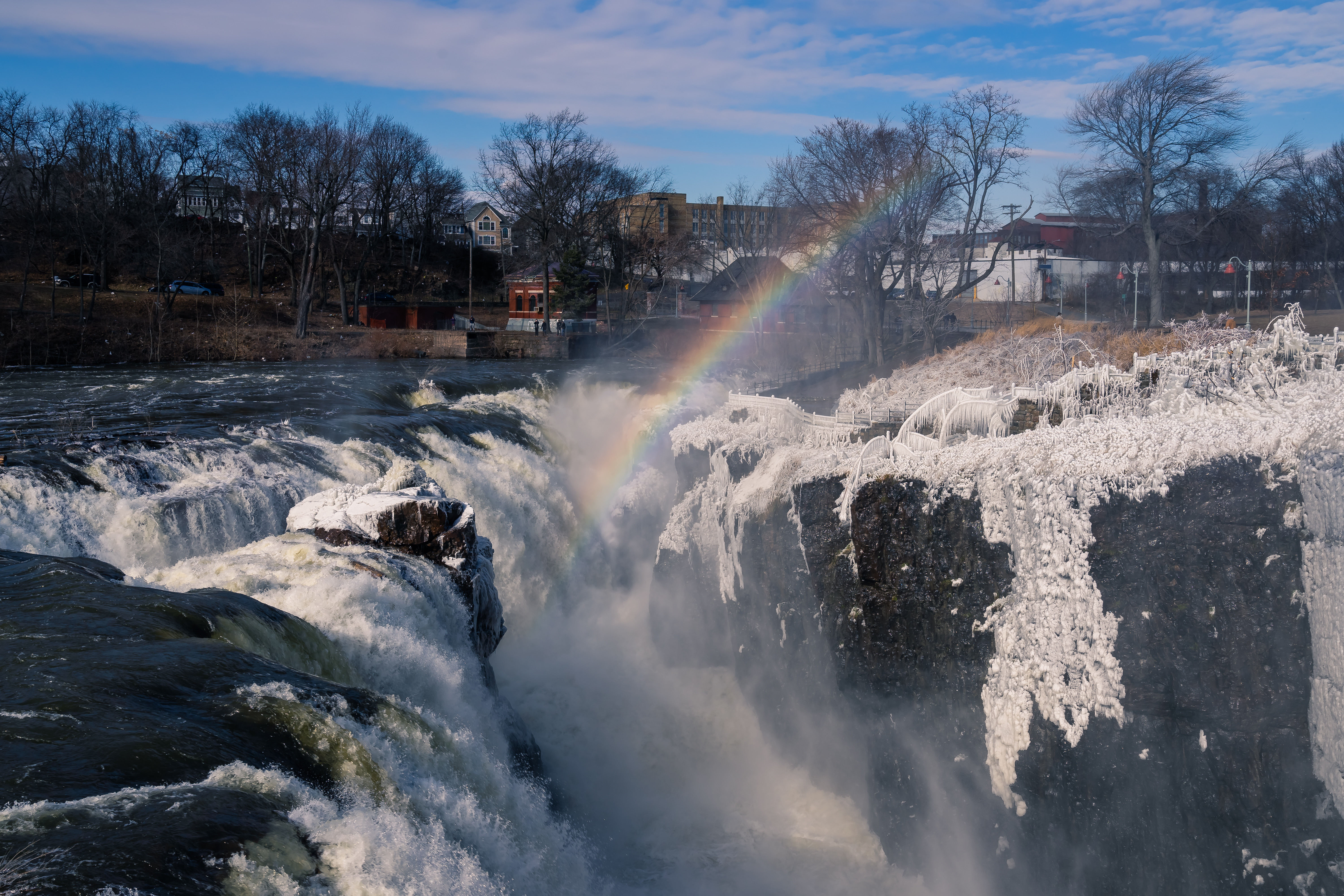 this is the Falls with very high water and frozen mists/